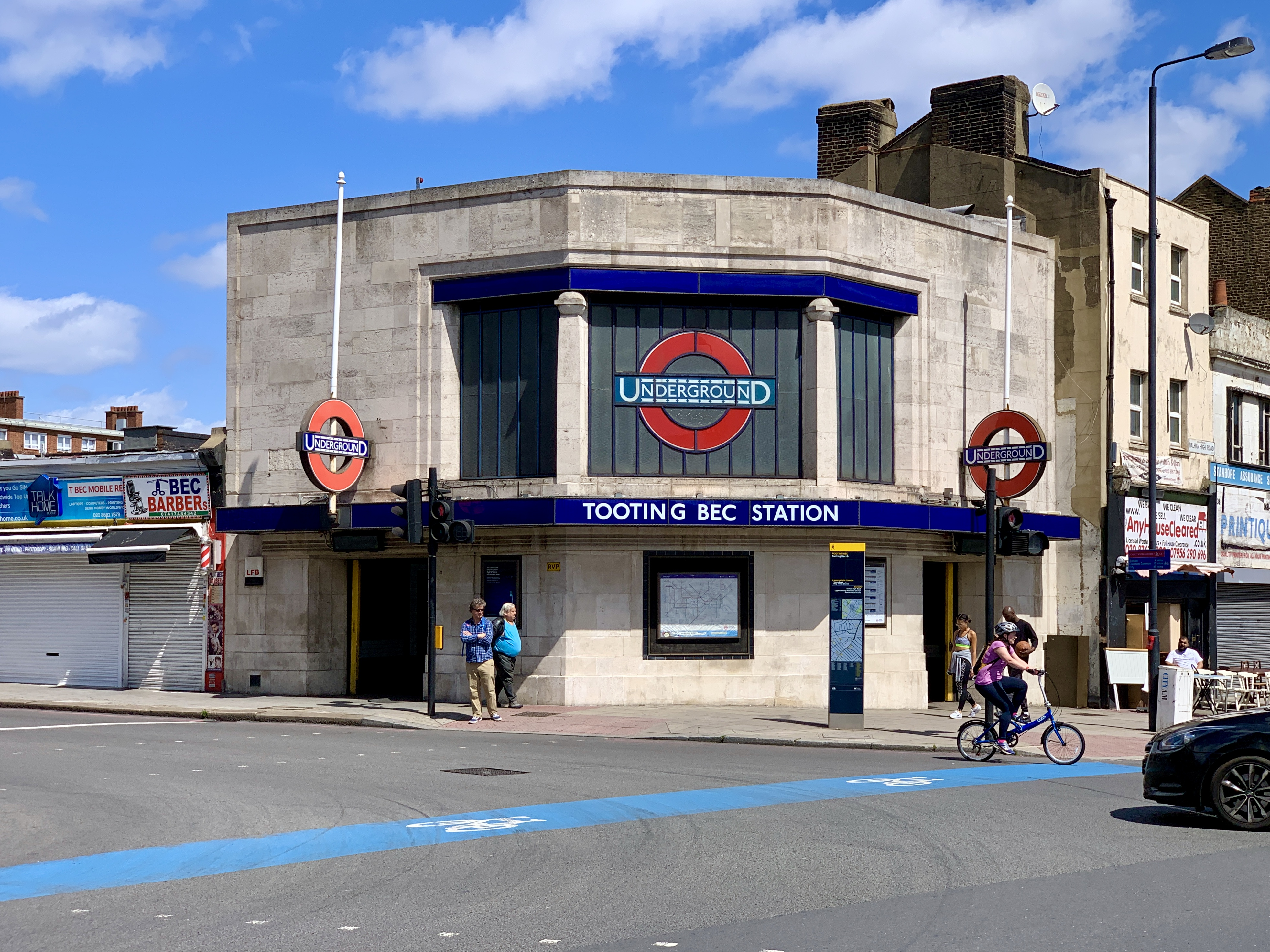 Northern station building of Tooting Bec tube station. Markings for the Cycle Superhighway 7 are visible in the foreground. Taken during my Northern Line Tube Walk.